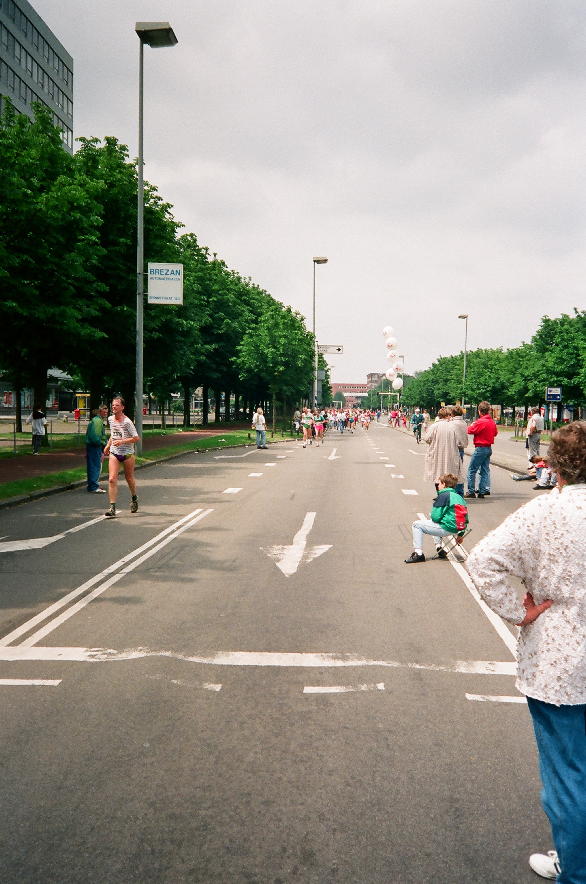 Marathon van Enschede, Van Heekplein, 1993-06-13